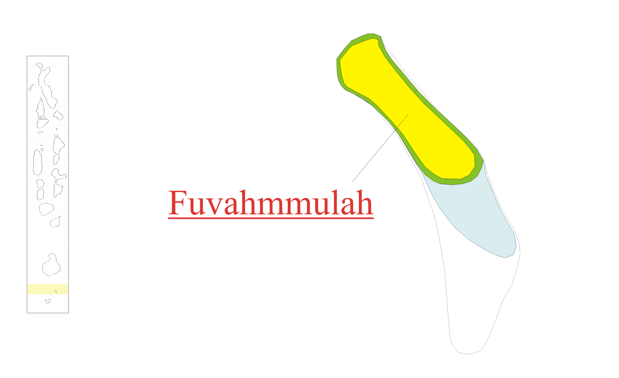 Summary Map of Nyaviyani_Atoll Map originally vector'ed by Hassan Waheed, Aabaadhuge of Thinadhoo island. Note: This section of map was extracted and its text was romanized by Oblivious. Special assitance by Waddey and Zuru Converted to PNG by helix84 source: Image:Nyaviyani_Atoll.jpg